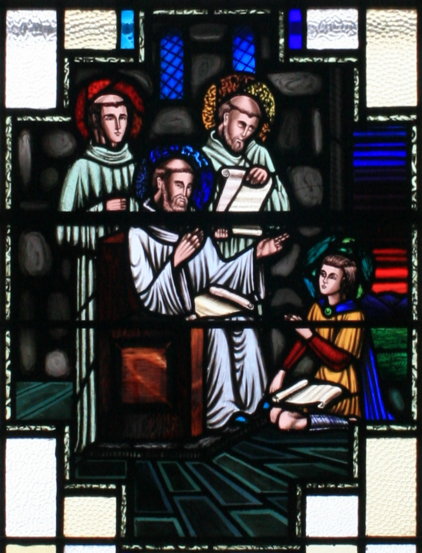 Clonard, County Meath, Ireland Detail of the second stained glass window in a series depicting the life of St. Finian in the Church of St. Finian at Clonard. The windows were created by Hogan in 1957. The inscription reads: Saint Finian as a boy with Saint David in Wales. This image has been cropped from this image.